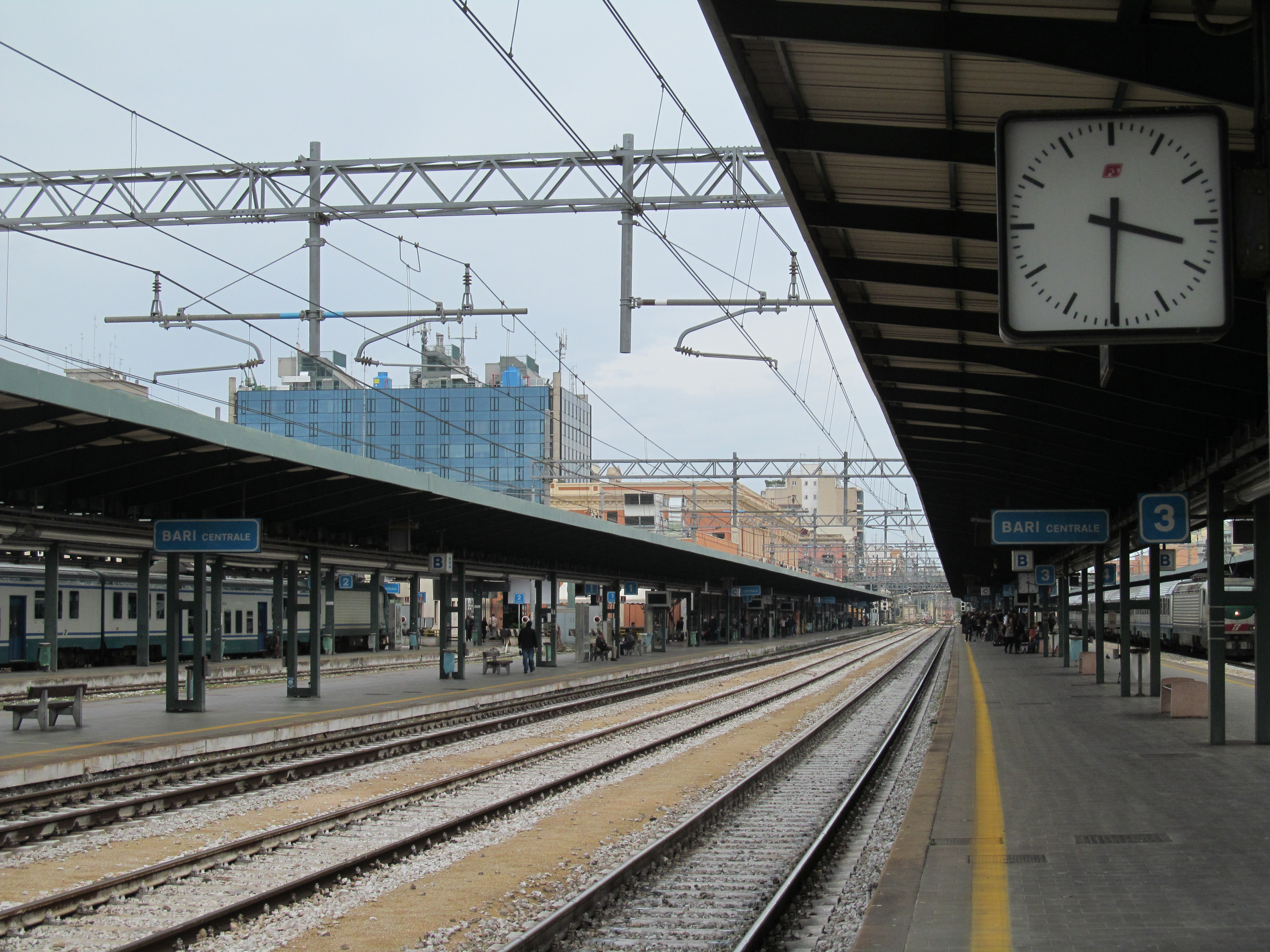 A view of Bari Centrale station